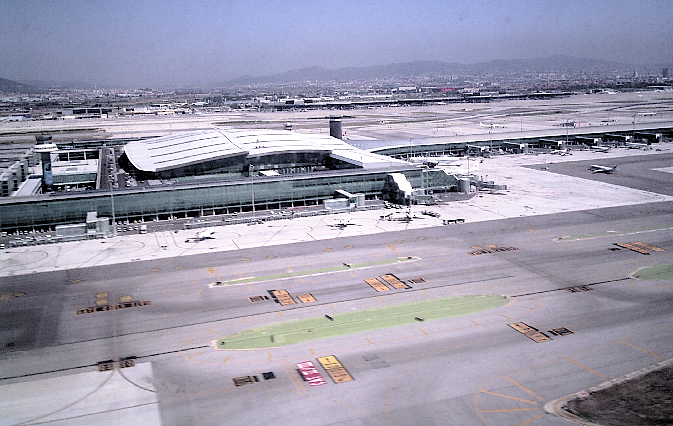 View of Terminal 1 of the Barcelona airport, Catalonia, Spain.